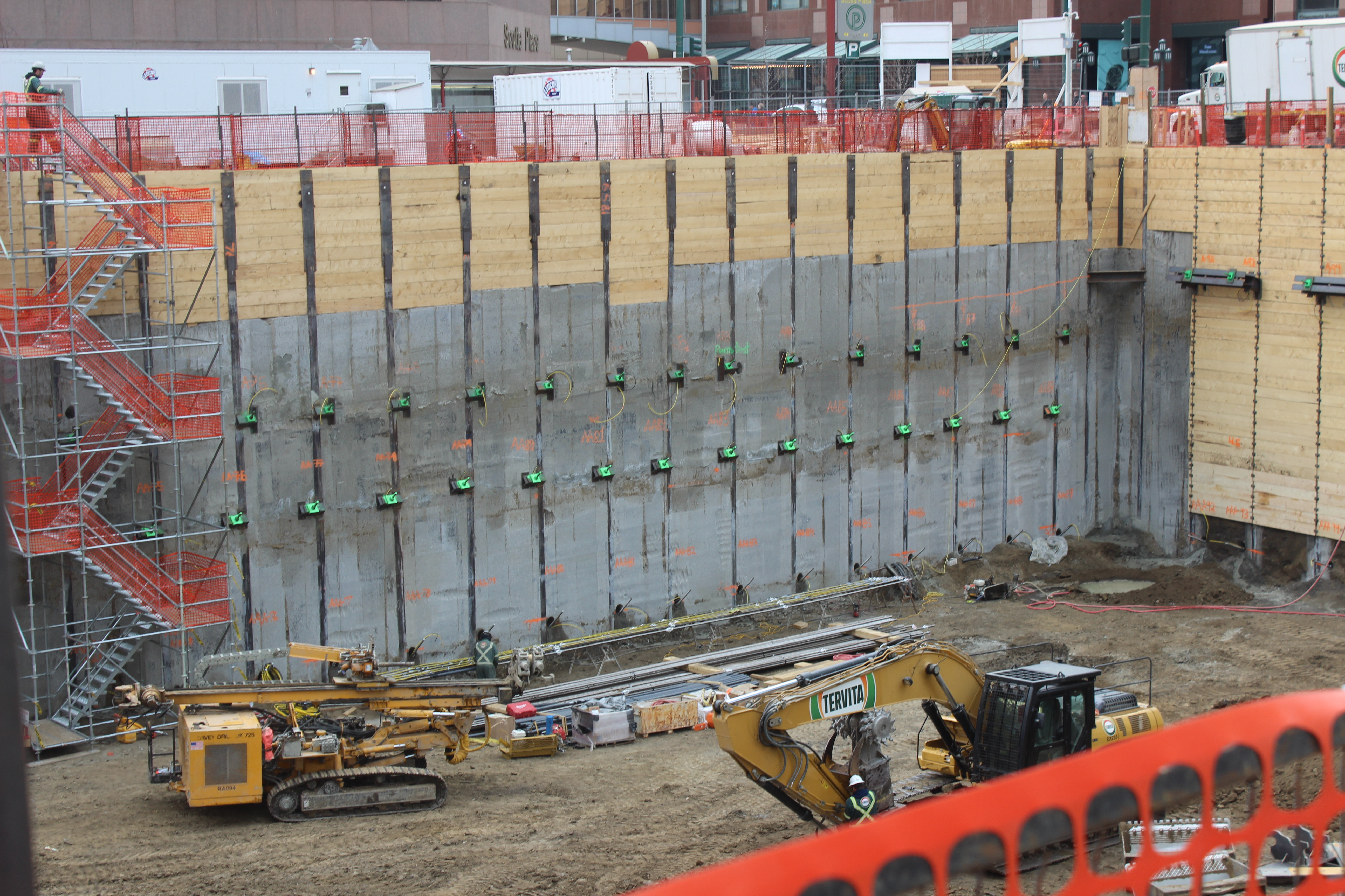 Site of the former Kelly Ramsey Building April 11 2014